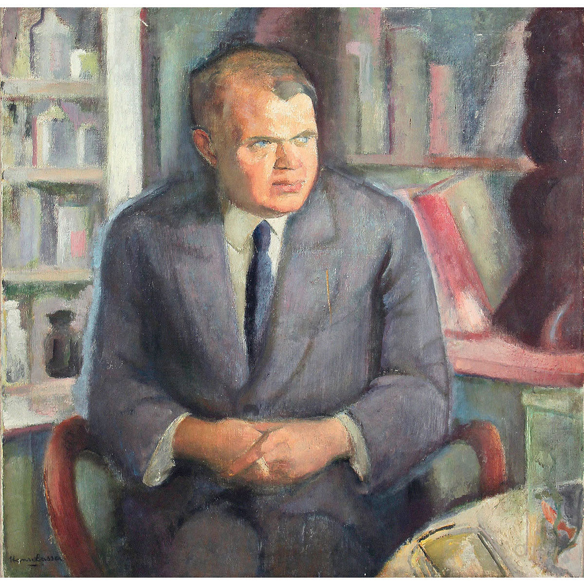 'Herrenbildnis'